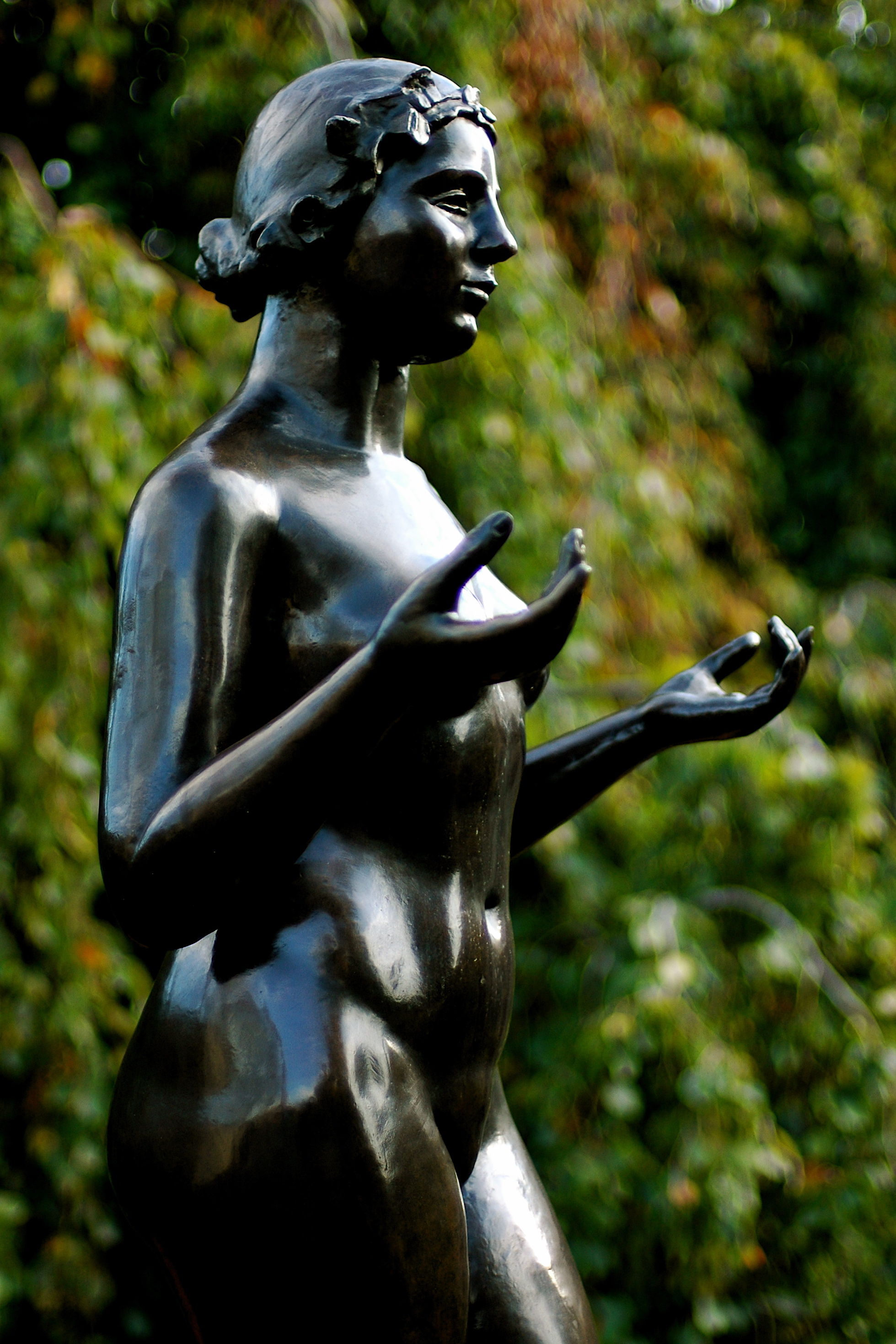 Nymph (central figure for The Three Nymphs) by Aristide Maillol at Hirshhorn Museum and Sculpture Garden, Washington DC.